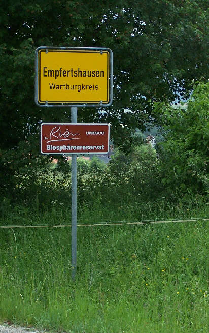 The welcome in Empfertshausen village.